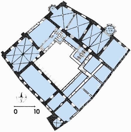 Hrádek, Barborská 28/9, Vnitřní Město, Kutná Hora